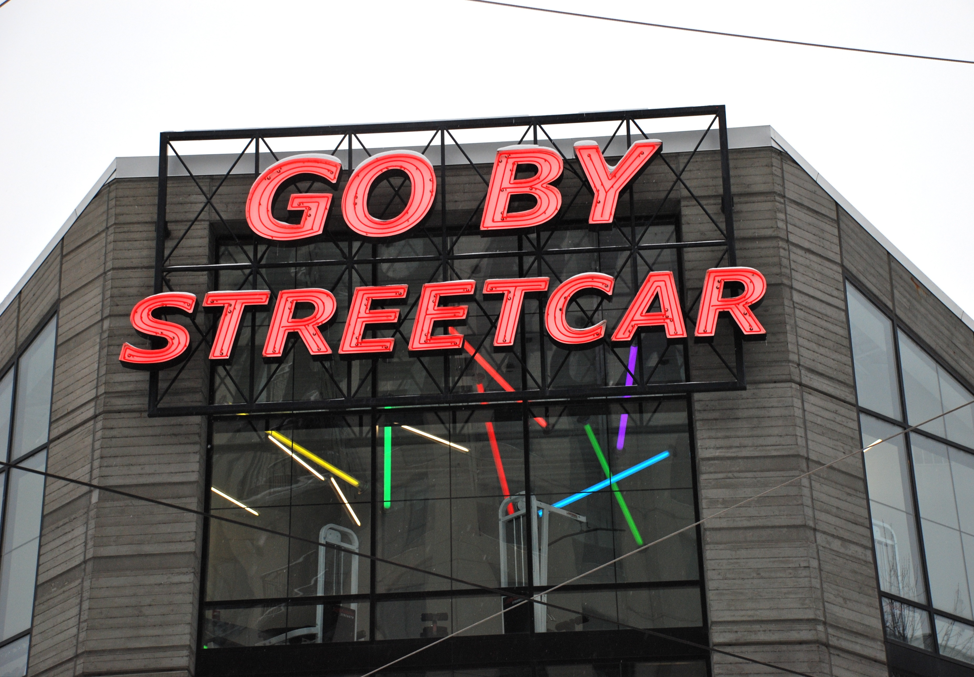 The "Go by Streetcar" sign, in Portland, Oregon, is a large neon sign on the 2002-opened Streetcar Lofts condominiums, at N.W. 11th Avenue and Lovejoy Street in Portland's Pearl District. The 2001-opened original Portland Streetcar line passes by it, and so does the 2012-opened second streetcar line. The sign was inspired by the "Go by Train" neon sign that was installed in 1948 on the tower of Portland's Union Station (located a few blocks to the east).